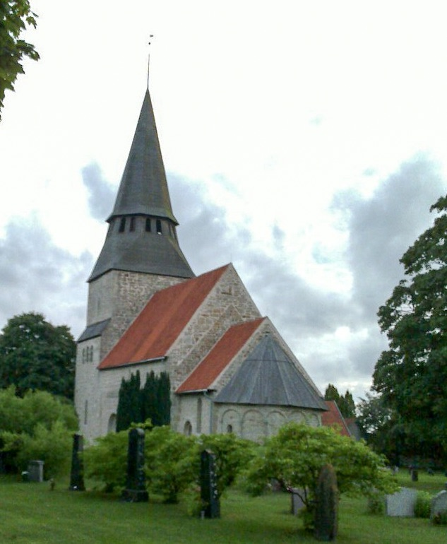 Church of Havdhem, Gotland, SE